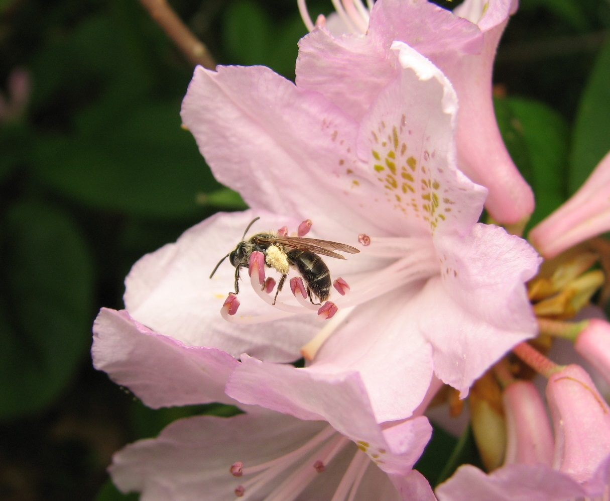 Andrena cornelli performing buzz pollination of azalea. Corneille Bryan Native Garden, Lake Junaluska, Haywood County, North Carolina, USA. May 26, 2010.